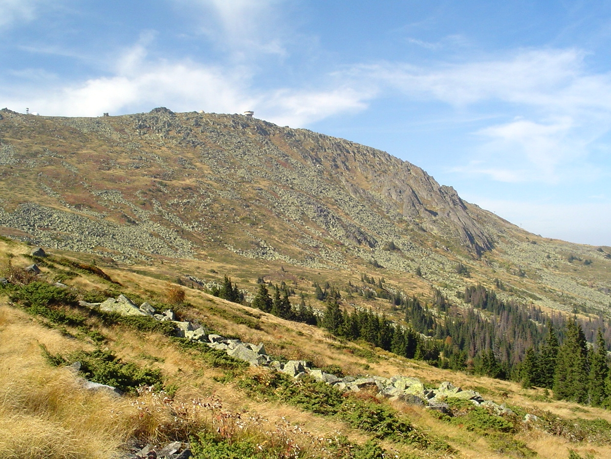 Bistrishko Branishte Nature Reserve with Golyam Rezen Peak on the left. Vitosha Mountain, Bulgaria. Photograph by Kiril Kapustin published in under Creative Commons license 2.5.